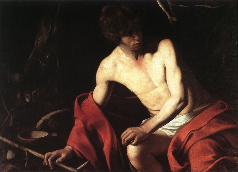 John the baptist, by Caravaggio (1571-1610), from Web Gallery of Art. Web Gallery of Art has agreed to use of images on Wikipedia, and artist died more than 100 years ago.